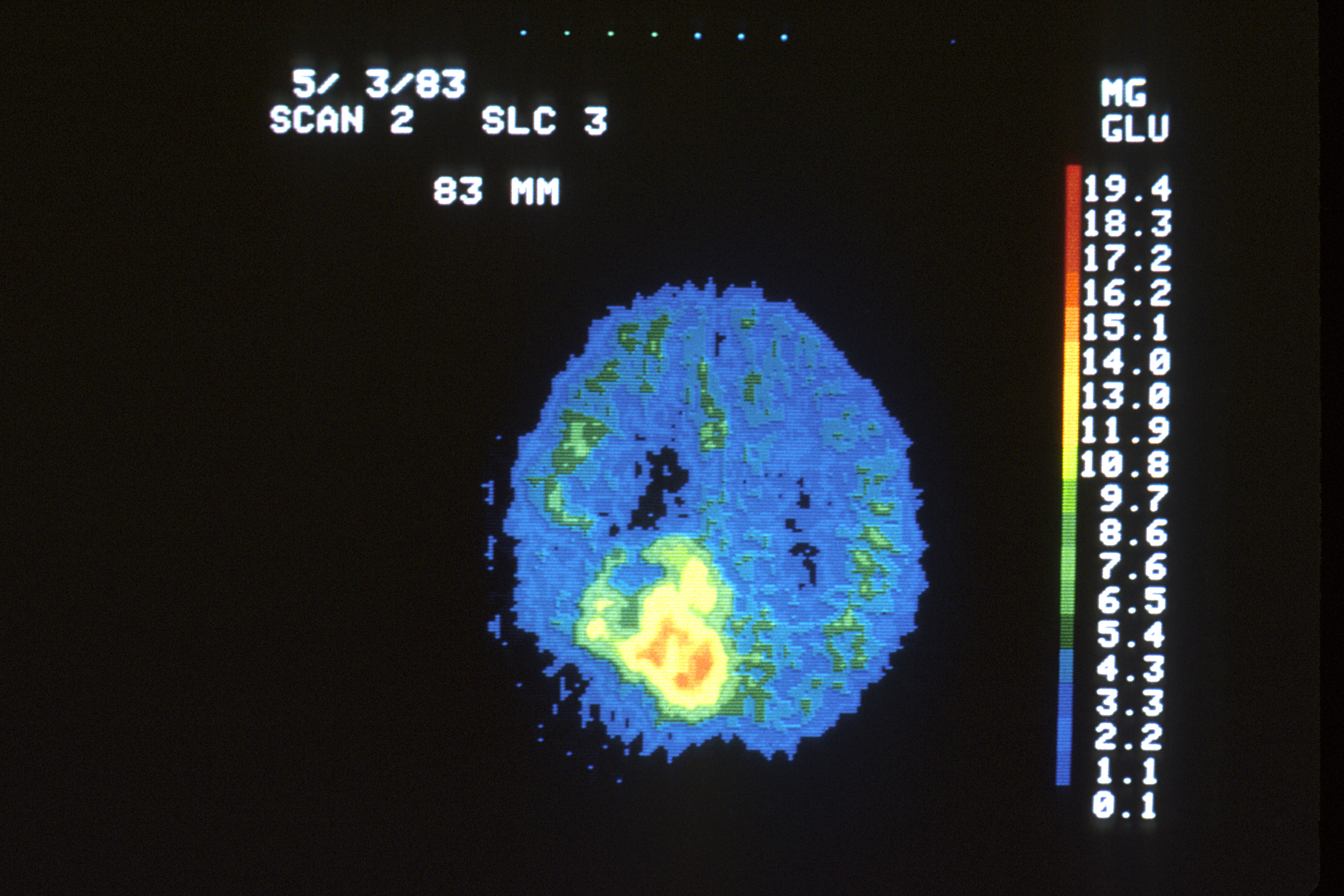 Title PET Scan of Brain Tumor Description A PET scan (positron emission tomography) of a 62 year old man with a brain tumor classified as a grade III astrocytoma. The PET scan displays an increased glucose metabolic rate shown by the irregular bright white area in the center of the scan. Topics/Categories Cancer Types -- Brain Cancer Test or Procedure -- Imaging Procedures Type Color, Other Source Dr. Giovanni Dichiro, Neuroimaging Section, National Institute of Neurological Disorders and Stroke